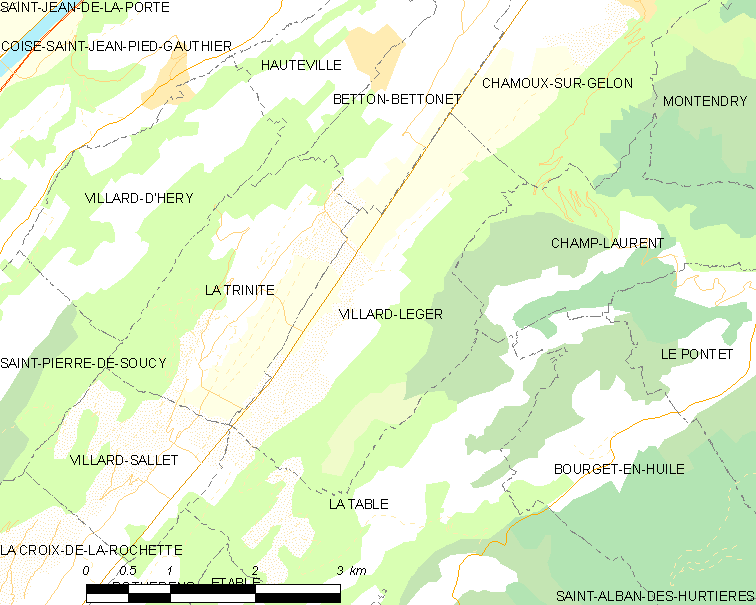 Map of French municipality Villard-Léger